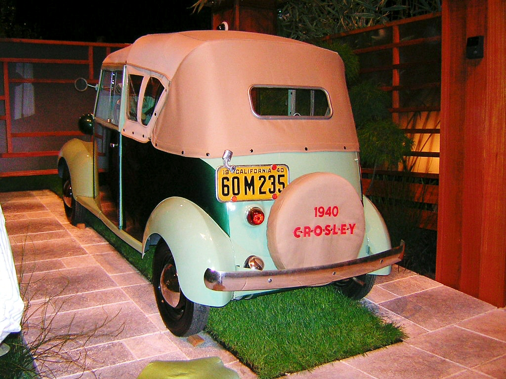 1940 Crosley